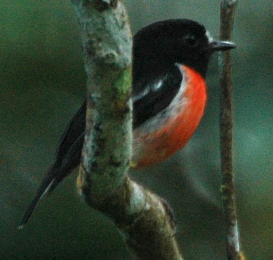 Pacific Robin (Petroica multicolor) Colo-I-Suva Park, Viti Levu, Fiji Isles